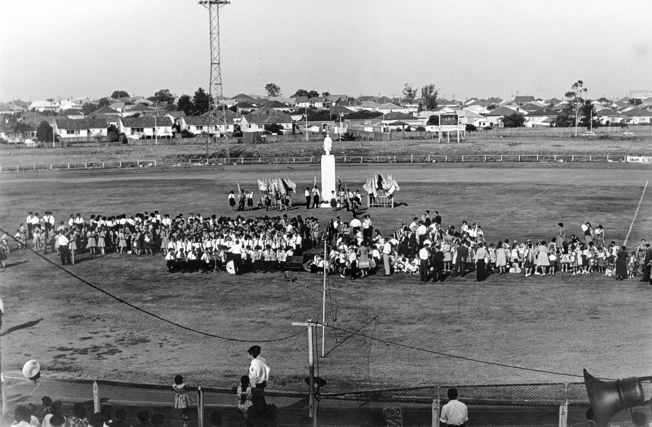 Ukrainian Australians in front of a temporary statue of the great Ukrainian poet and freedom-fighter Taras Shevchenko, (design by artists Peter Kravchenko and Stephan Chwyla, who were eventually founding members of the Ukrainian Artists Society of Australia) at Lidcombe Oval in Sydney, Australia in January 1964. This statue and temporary monument was part of the Ukrainian-Australian community's celebration of 150 years from the birth date of Shevchenko.